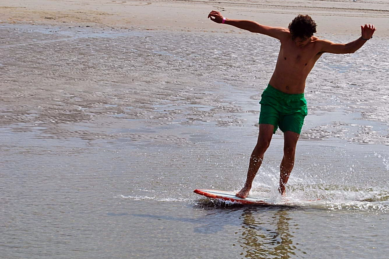 Flatland skimboarding at Ameland Beach in the Netherlands during Madnes Festival 2017